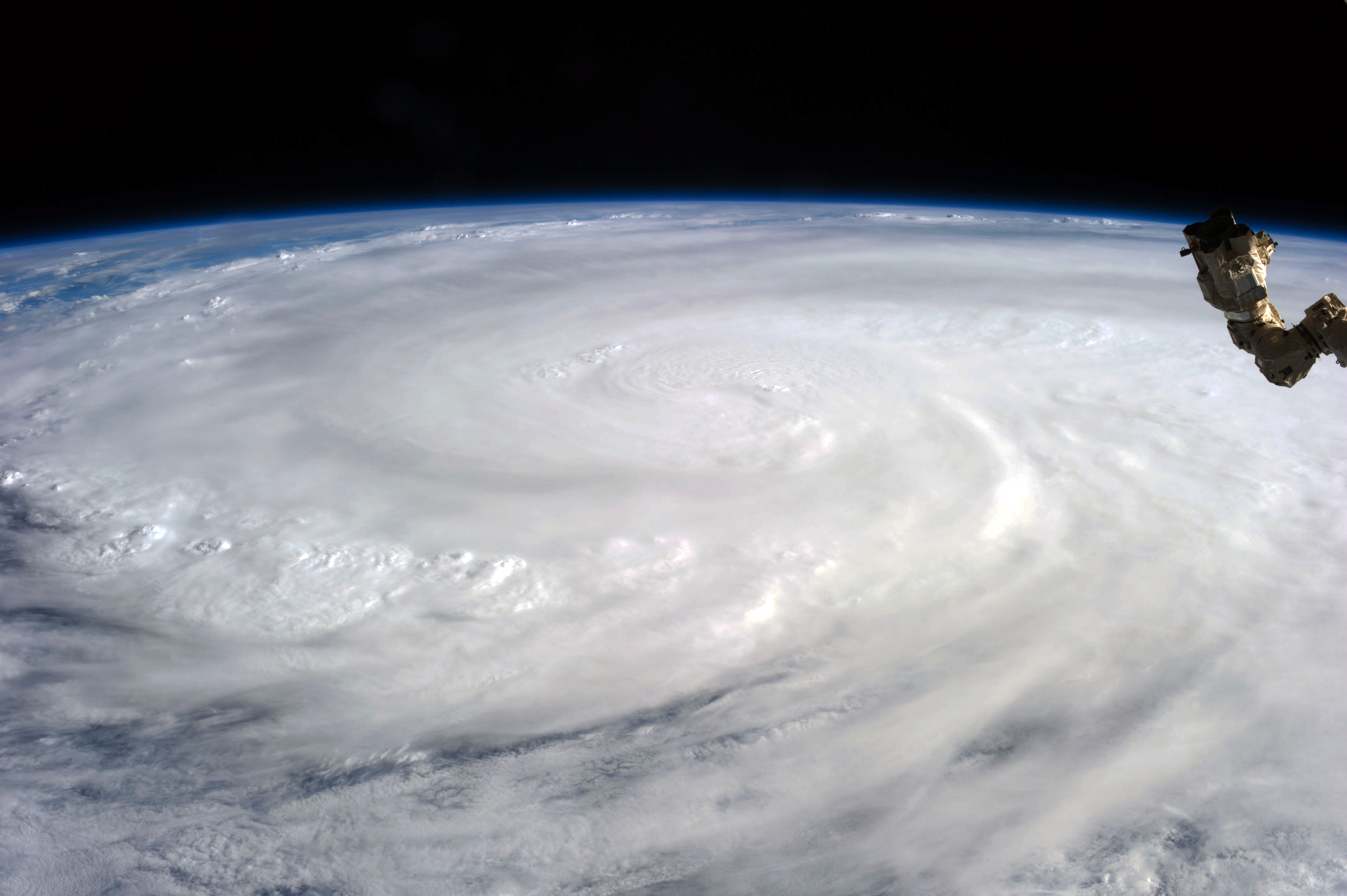 Typhoon Haiyan photographed on 9 November 2013 by United States astronaut Karen Nyberg from the International Space Station.